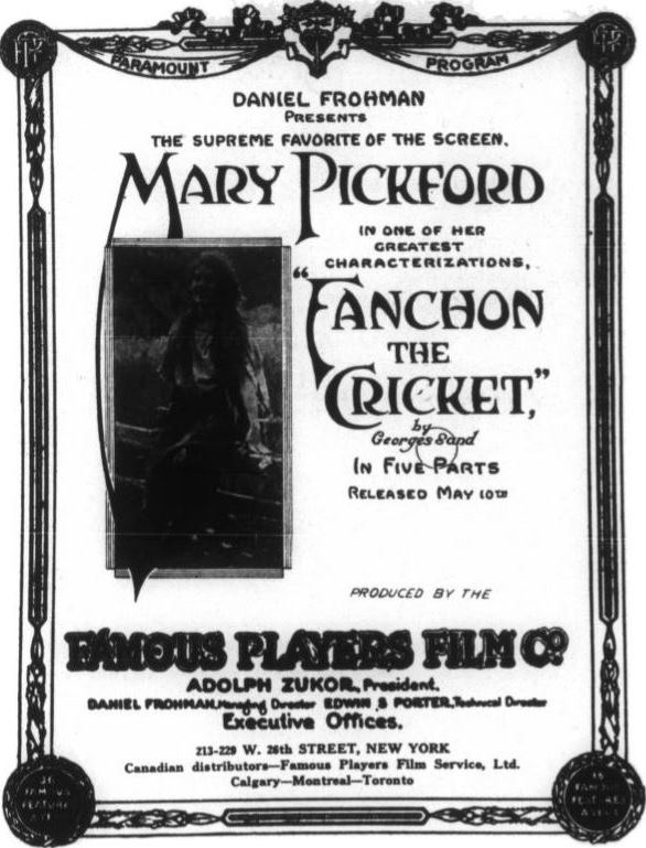 Advertisement for the American drama film Fanchon the Cricket (1915) with Mary Pickford, on page 20 of the April 30, 1915 Variety.